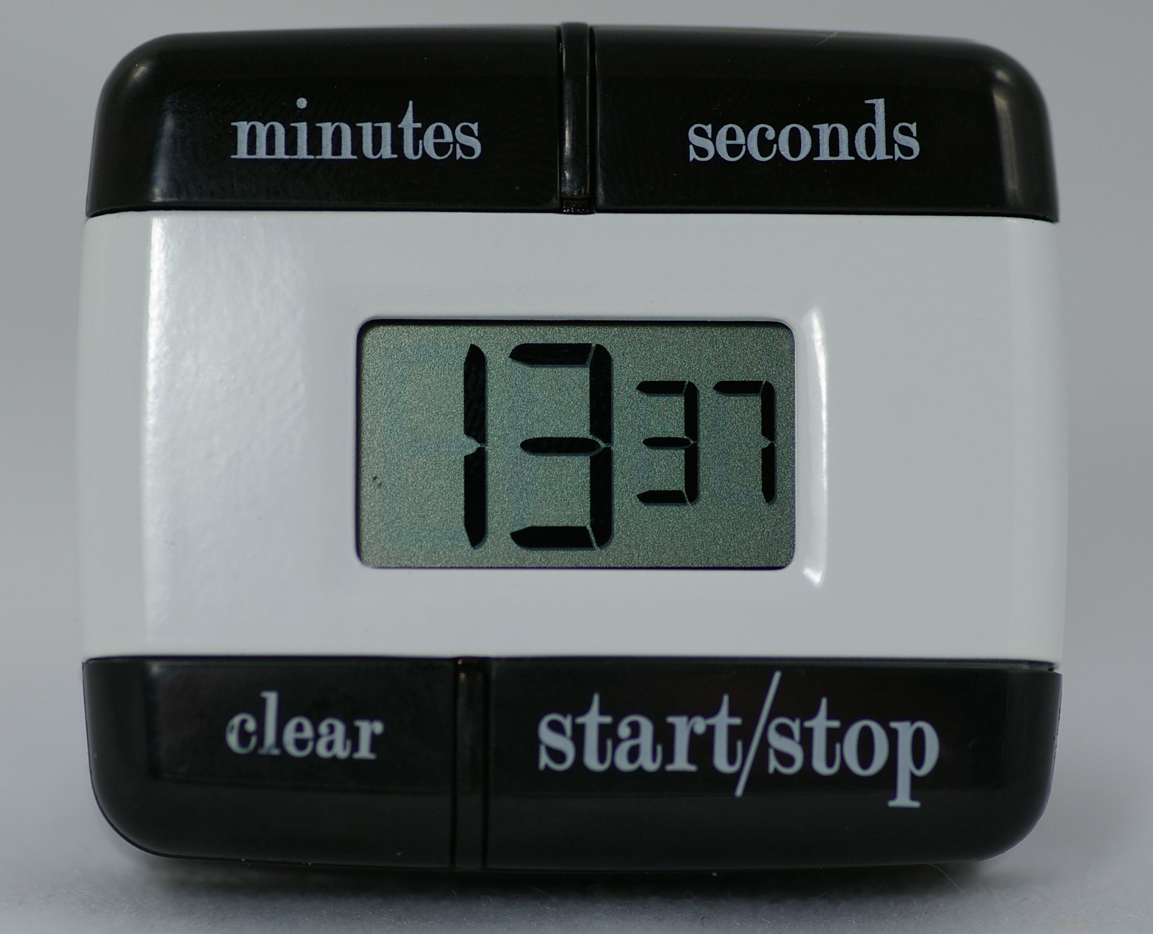 A digital timer for kitchen use.